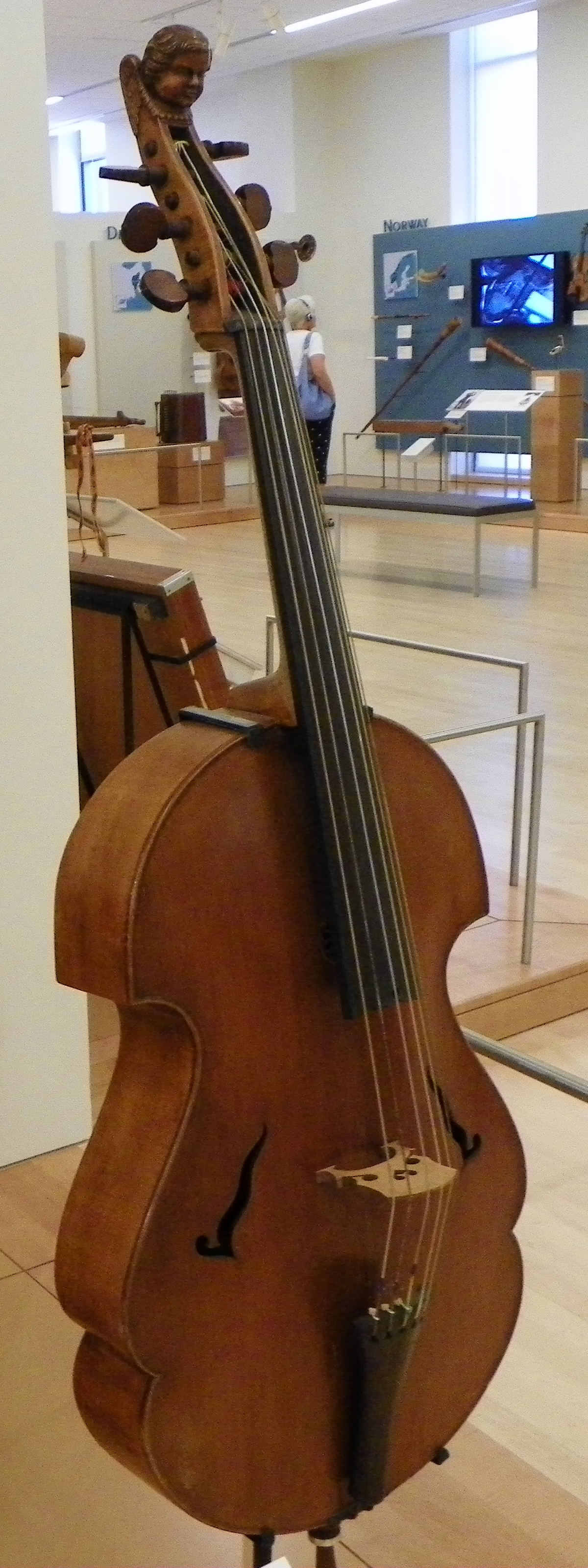 Photograph of musical instrument(s) taken at the Musical Instrument Museum (Phoenix) on 2011-04-26. Violone